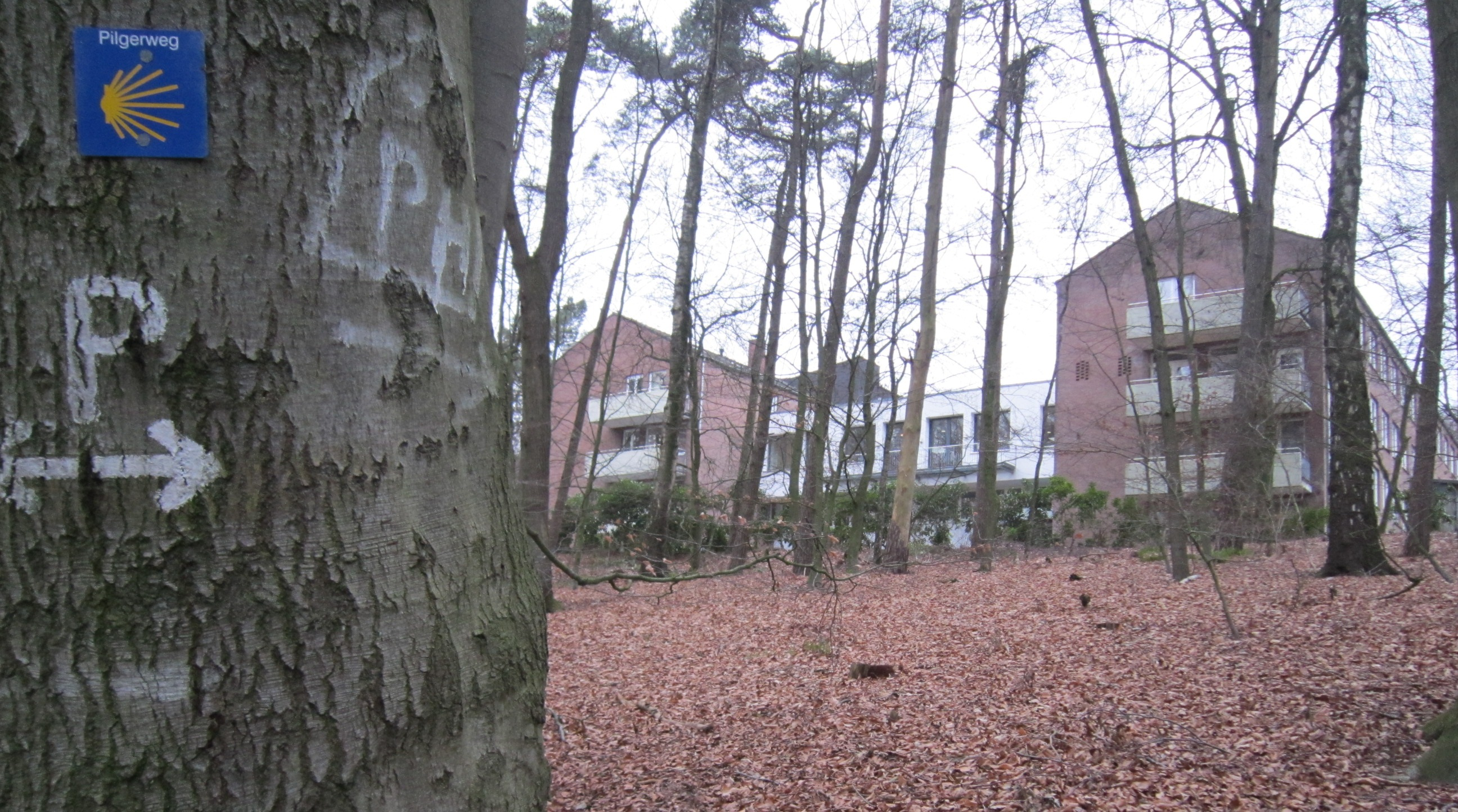 Priorate St. Benedict in Damme (Dümmer) behind the "Pickerweg" (part of the Way of Saint James)